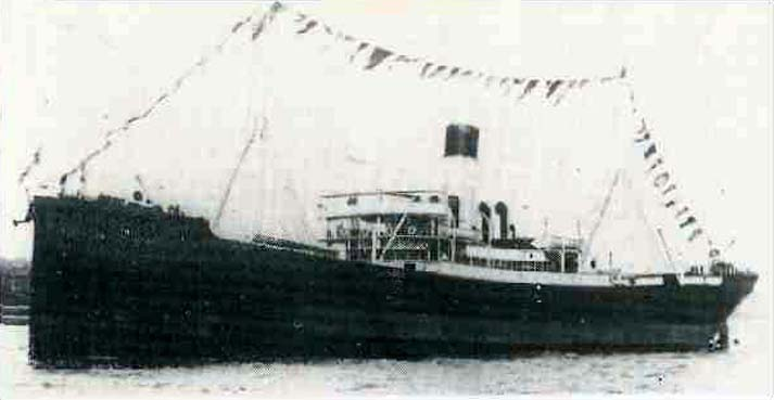 965 GRT steamship Cavour, a shallow-draught passenger and cargo steamship built by Scott & Co of Greenock for Lamport & Holt Line for coastal service in Brazil. In 1891 she was sold to Brazilian owners. In 1896 the Brazilian government bought her and renamed her Itapeva. In 1899–1900 the Brazilian Navy had her converted into an aviso and renamed her Comandante Freitas. In 1915 she was withdrawn from active service. She returned to civilian service, and in 1931 was renamed Pedro II. According to Lloyd's Register she still existed in 1945.